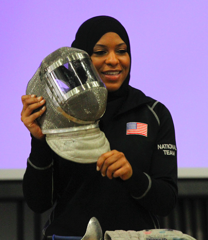 Ibtihaj Muhammad holding a fencing helmet